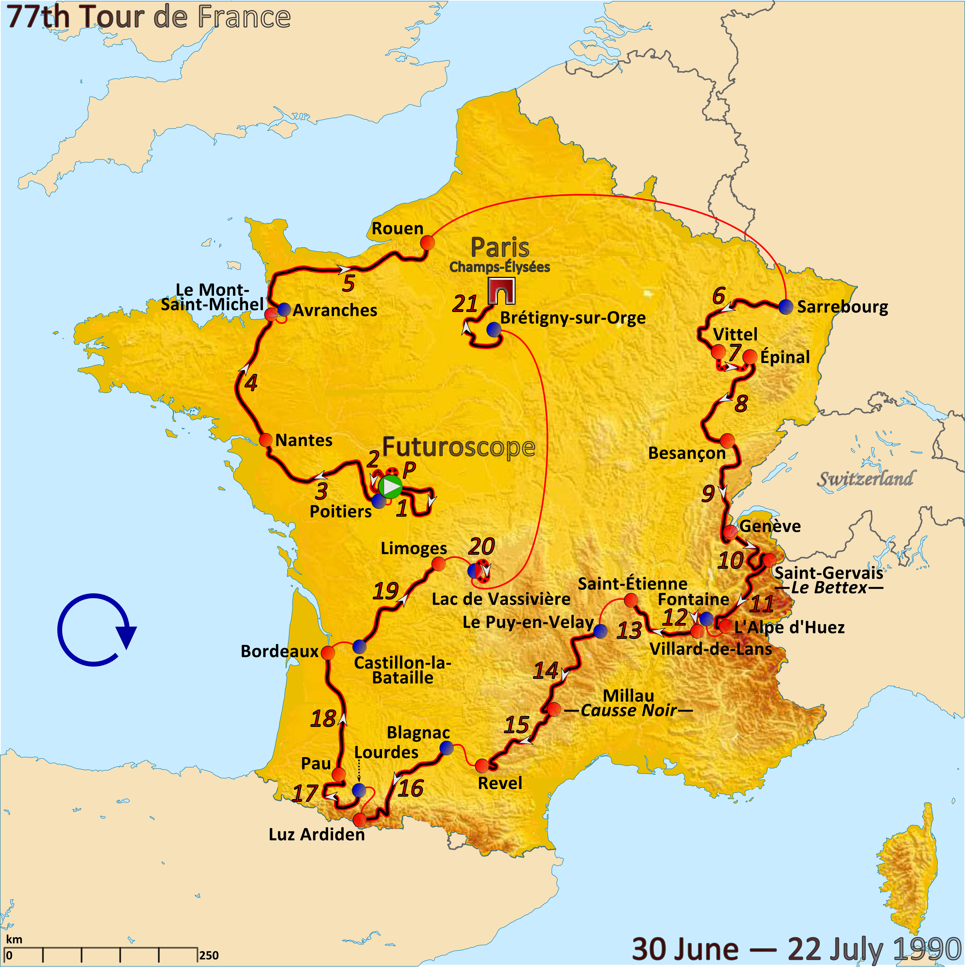 Map of the 1990 Tour de France created in Inkscape